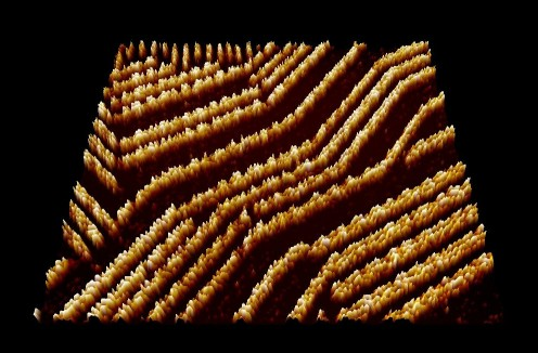 Scanning Tunnelling Microscope image of Quinacridone molecules adsorbed on a Graphite surface. The organic semiconductor molecules self-assembled into nano-chains via Hydrogen-bonds. Nanowire width: 1.6 nm. Image processing Software: SPIP; 3D enhancement was applied.